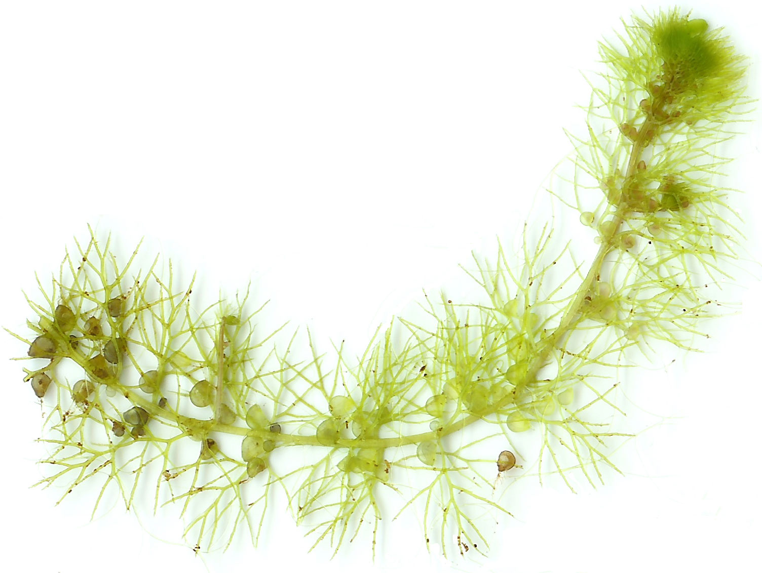 A strand of the common bladderwort, Utricularia vulgaris, from a UK pond. My own photo, for use in article Utricularia, produced by placing a bit of bladderwort on a flatbed scanner. For scale, the traps on this stolon are approx 2-2.5 mm in diameter. ~ Veledan • Talk 18:32, 9 March 2006 (UTC)